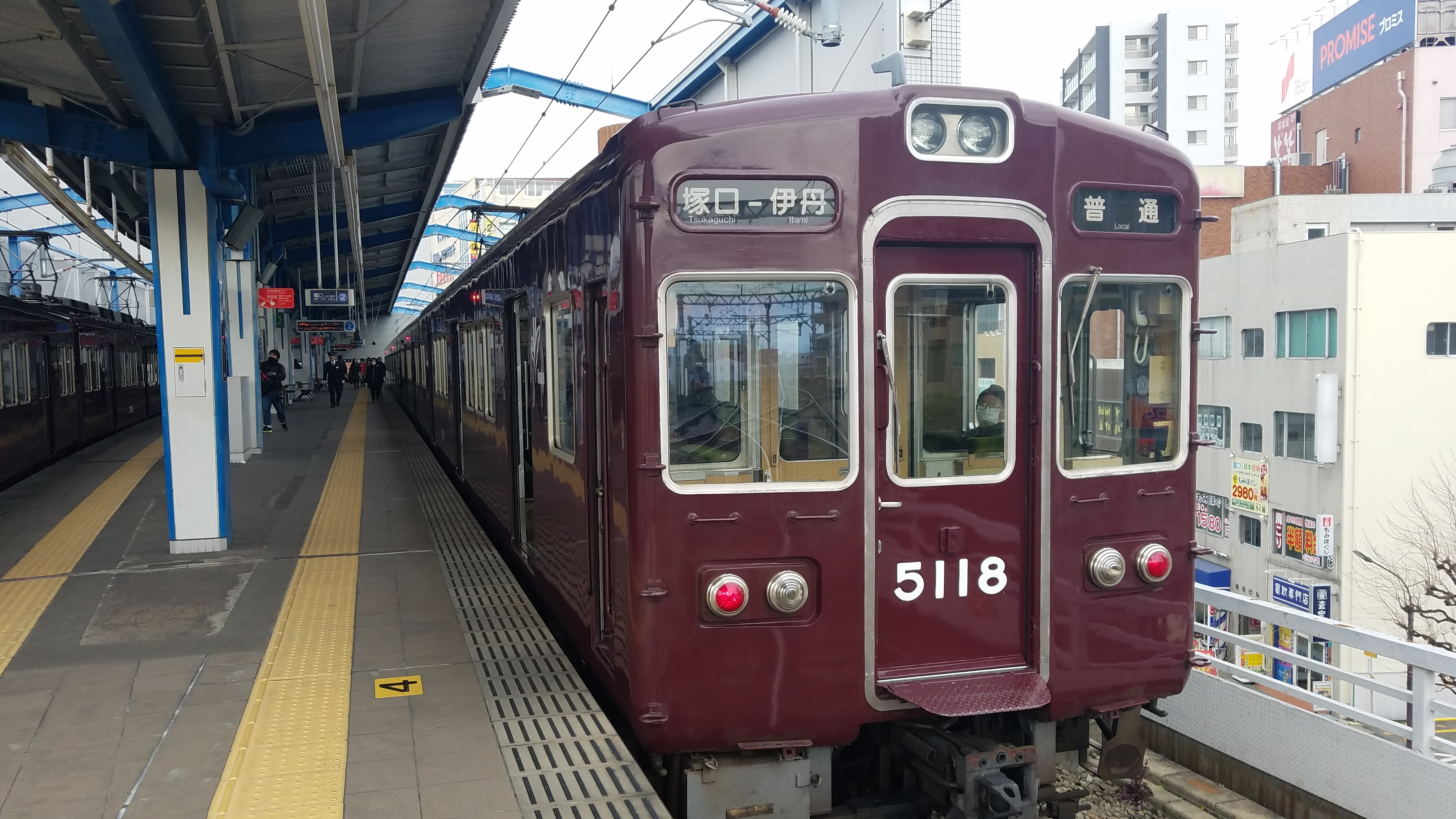 Hankyu 5100 series EMU set 5118 at Itami Station in Hyogo Prefecture, Japan